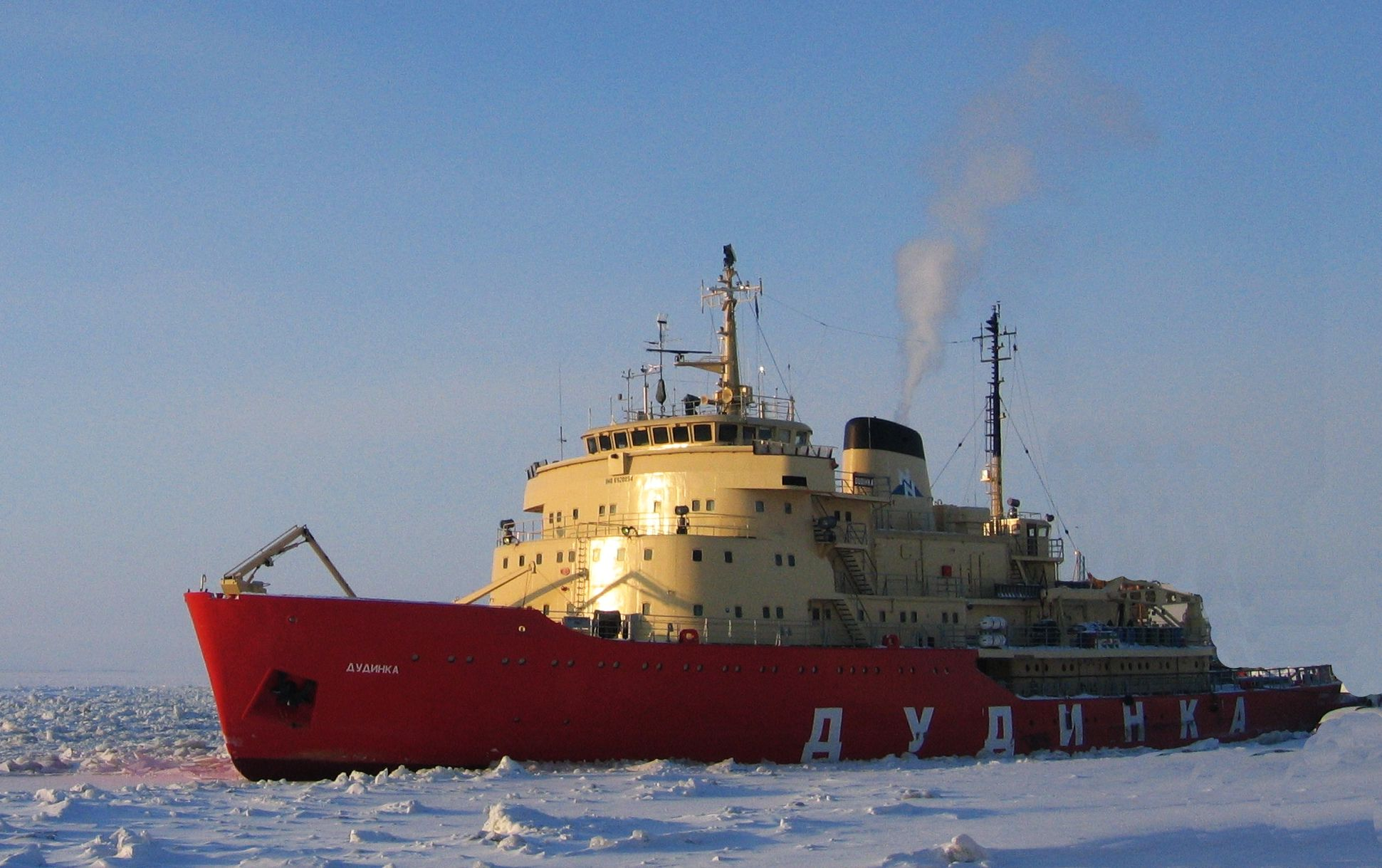 icebreaker Dudinka at port of Dudinka